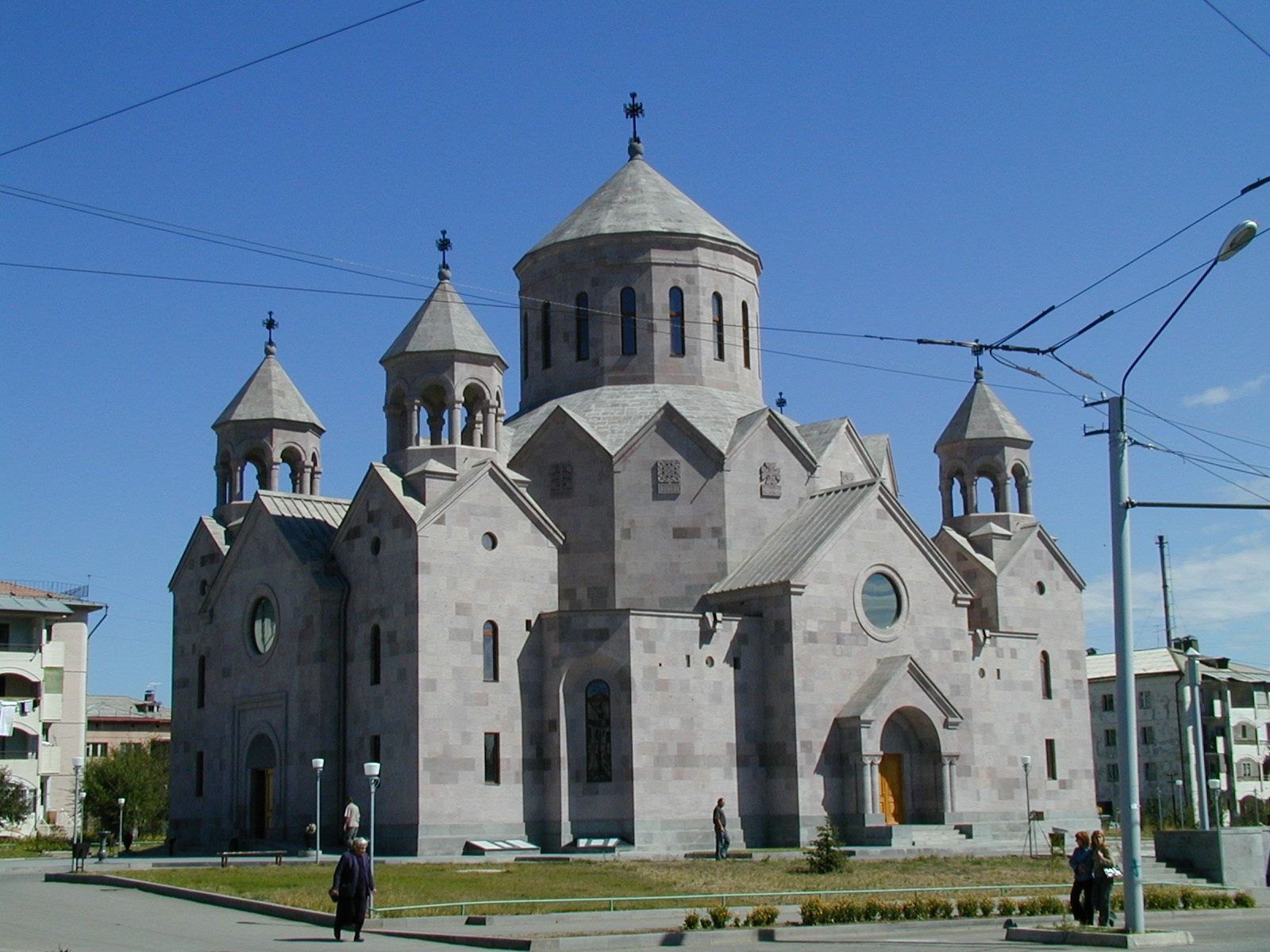 église St Hagop St. Hakob Church of Gyumri (architect: Baghdasar Arzoumanian)